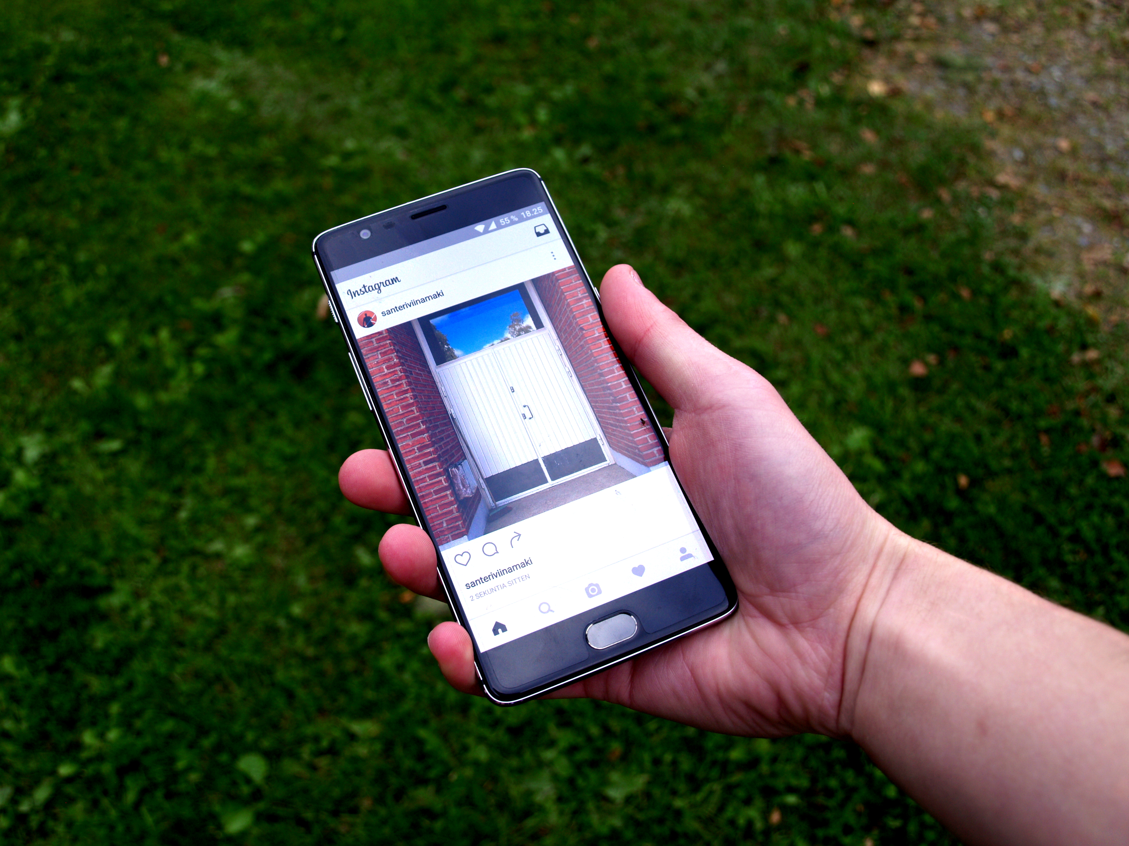 Instagram app on smartphone.